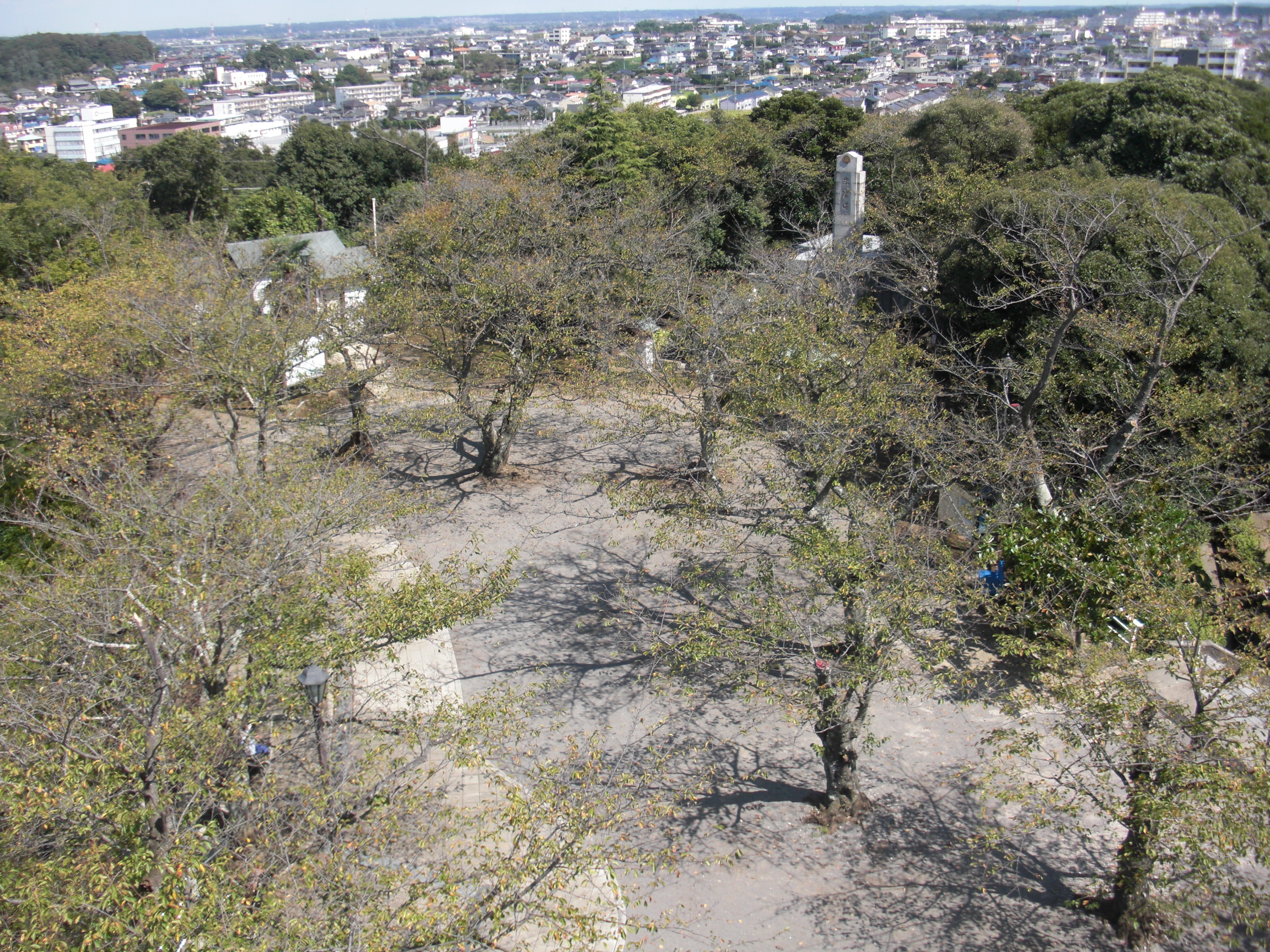 This is a scene of Odayama Park in Chiba, Japan.